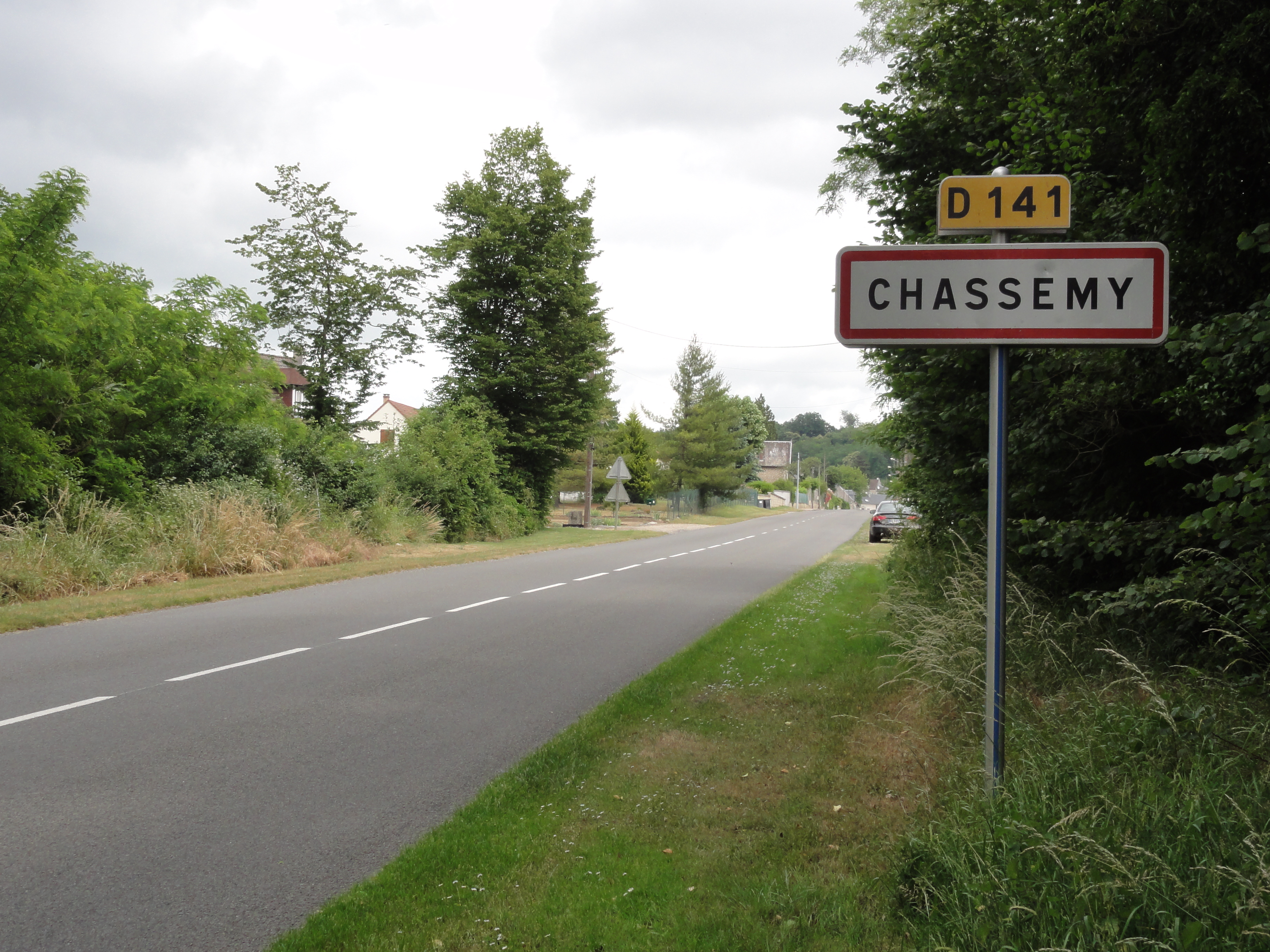 Chassemy (Aisne) city limit sign